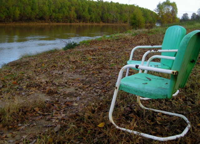 Tallahatchie River north of Greenwood, Mississippi, United States